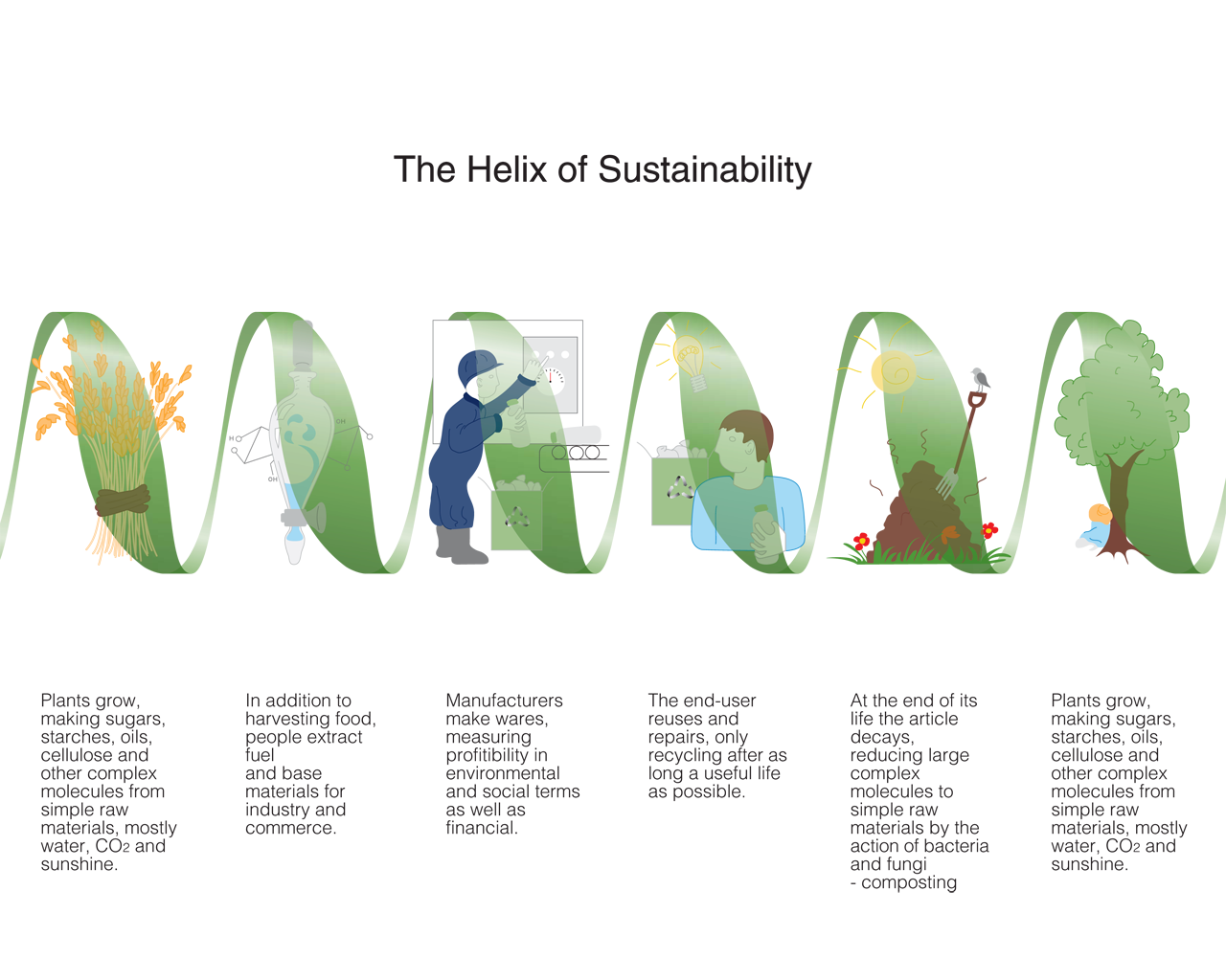 The helix of sustainability - minimum environmental impact manufacturing and product use